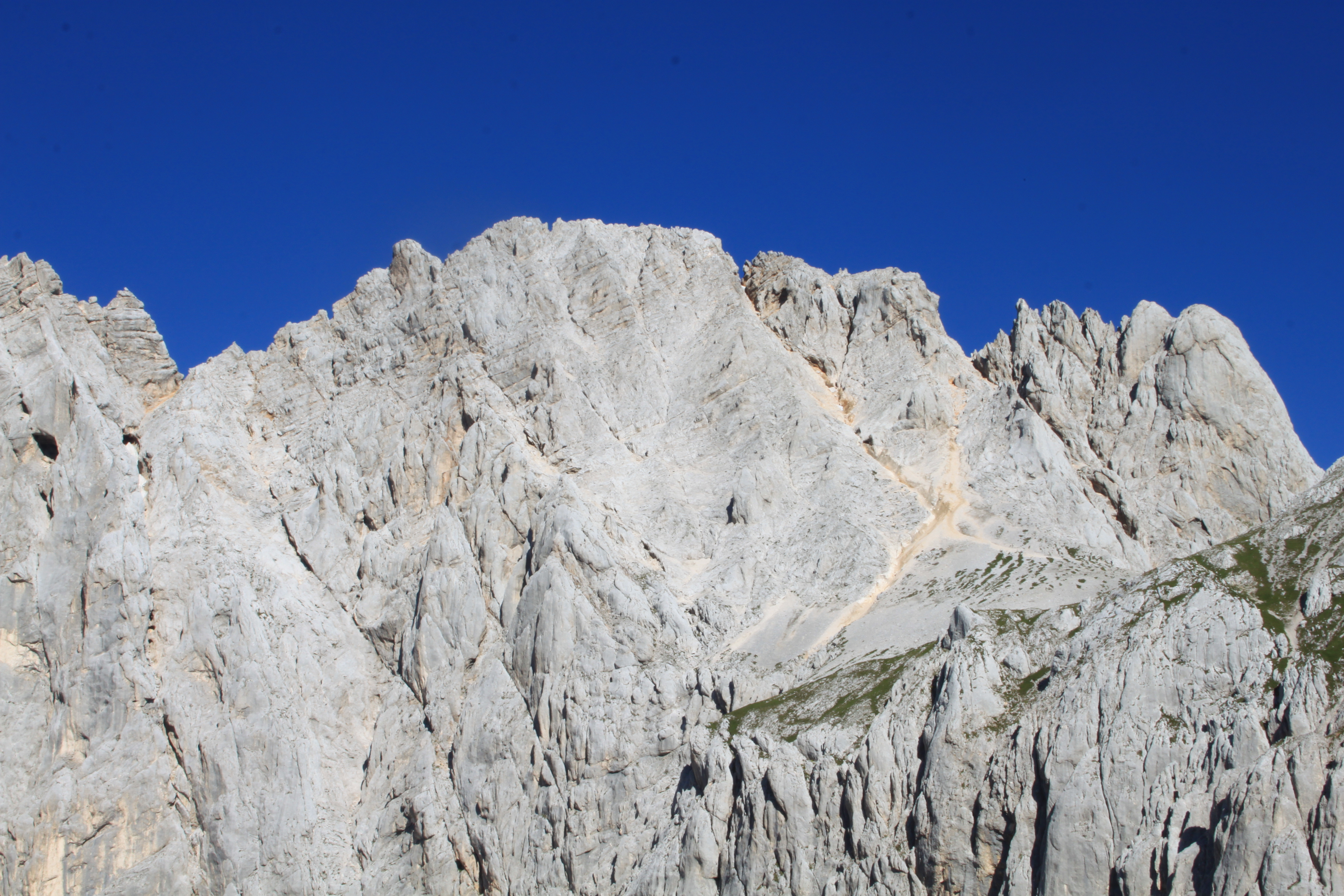 Mount Oltar (2,621 m) above cirque Na jezerih (on lakes), Julian Alps, Slovenia.